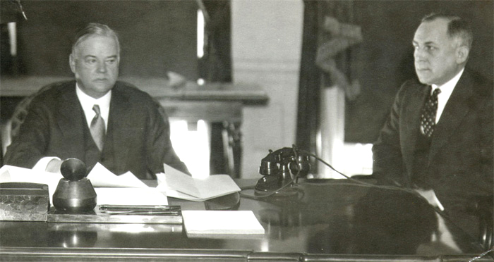 Ted Joslin, White House Press Secretary for Herbert Hoover (in office 1931–33).